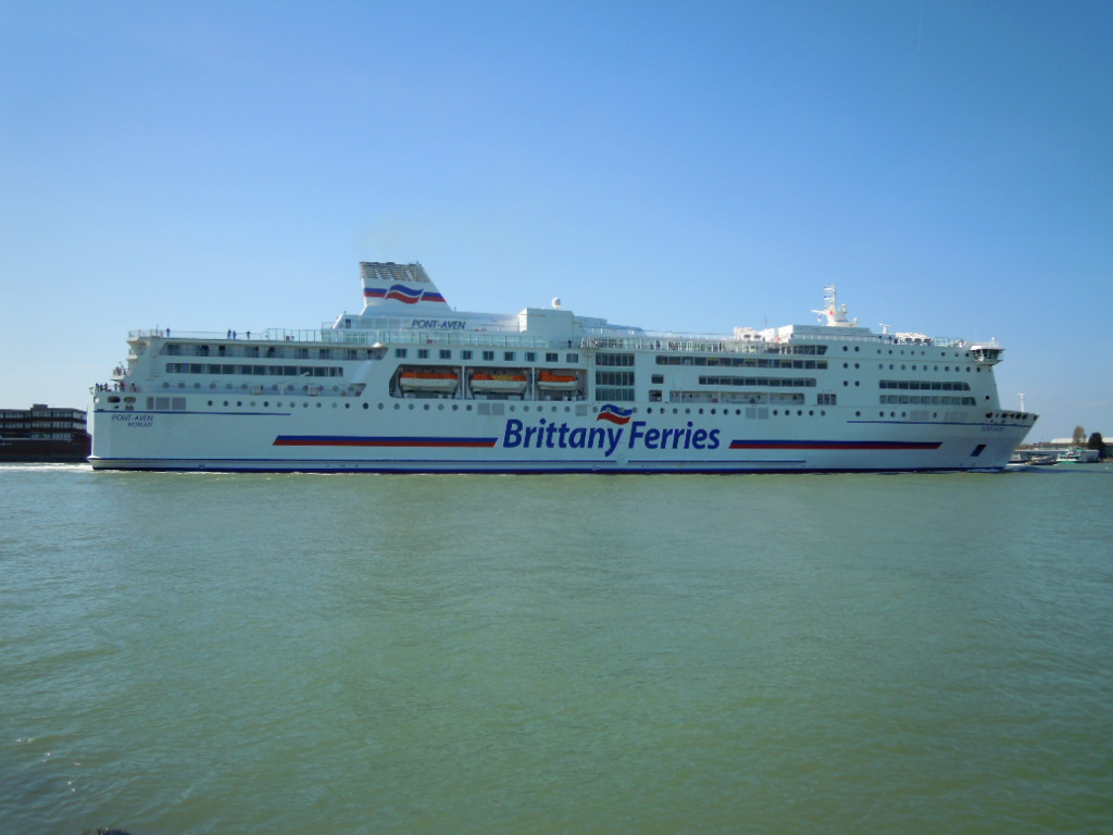 The Brittany Ferries MV Pont-Aven RO-RO transport ferry arriving in Portsmouth Harbour